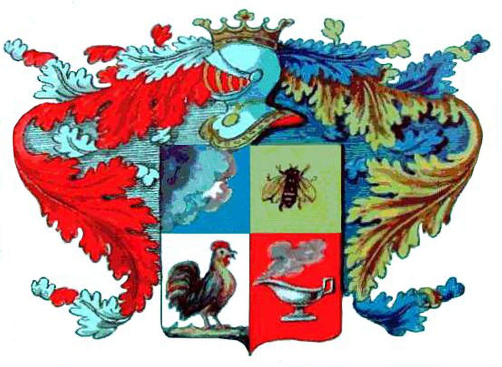 The coat of arms of Jakov Ivanovich Rachette